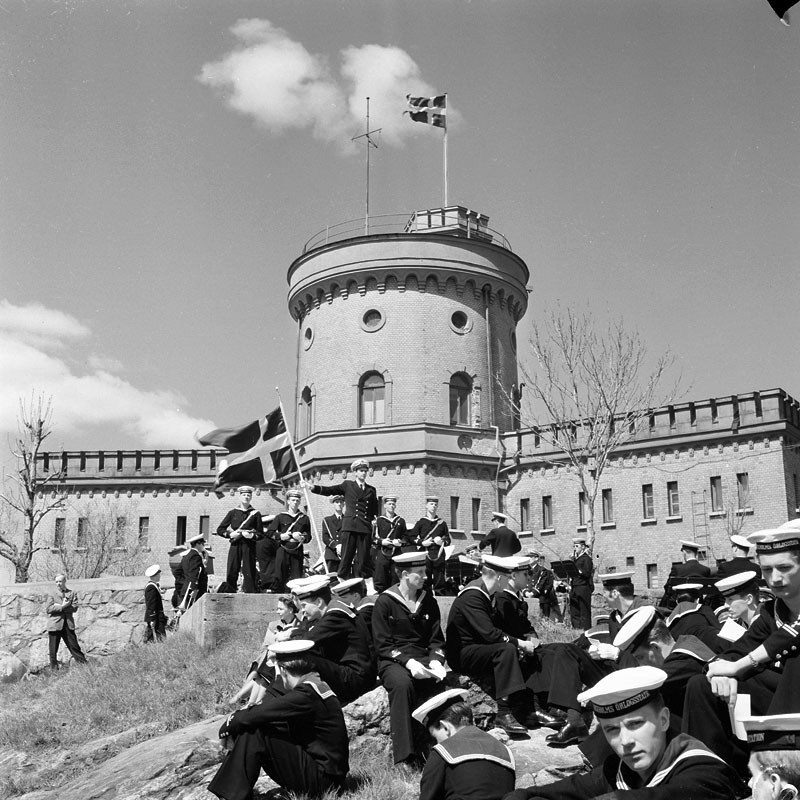 Kastellholmen, Stockholm. Soldiers from the Swedish Navy (Stockholms örlogsstation) at the last outdoor mass.